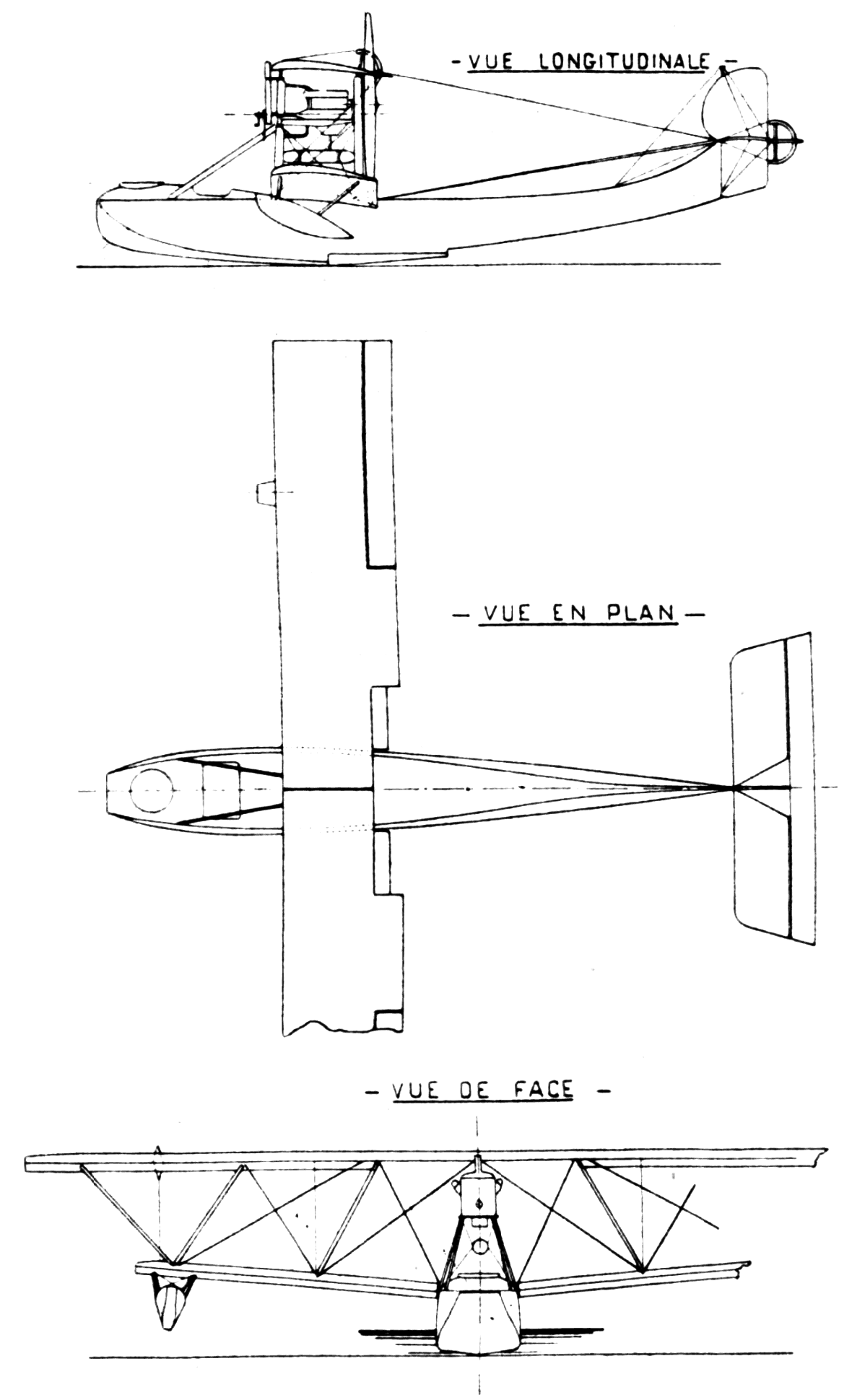 Tellier 200hp 3-view drawing from L'Aéronautique May,1926